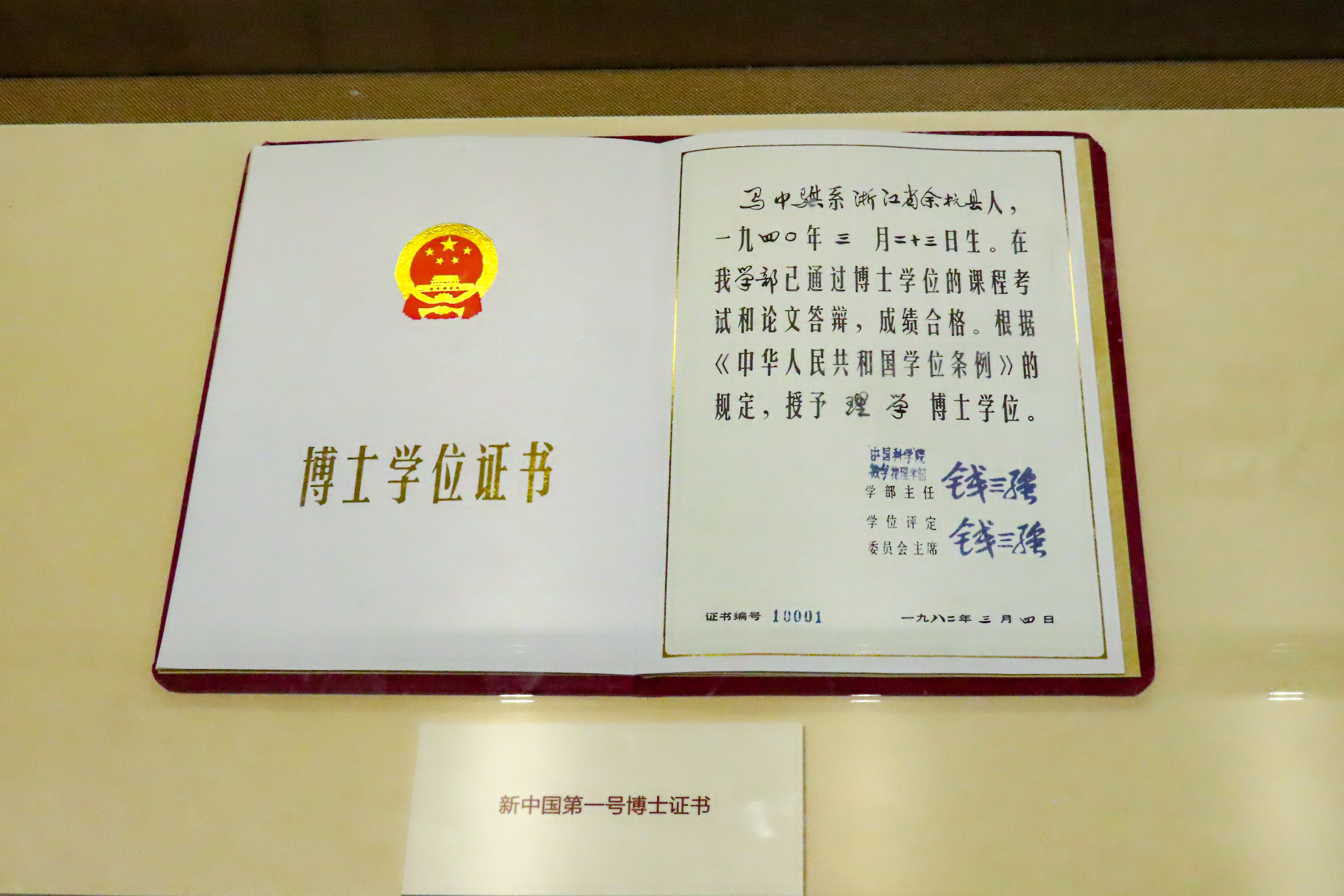 Ma Zhongqi (1940-) received the first PhD diploma issued by PRC in 1982. He then worked at the Institute of High Energy Physics of CAS, where he also studied for this PhD degree.